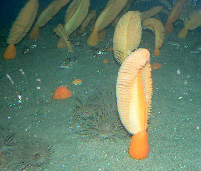 Photo of Ptilosarcus gurneyi (orange sea pen) at the Vancouver Aquarium